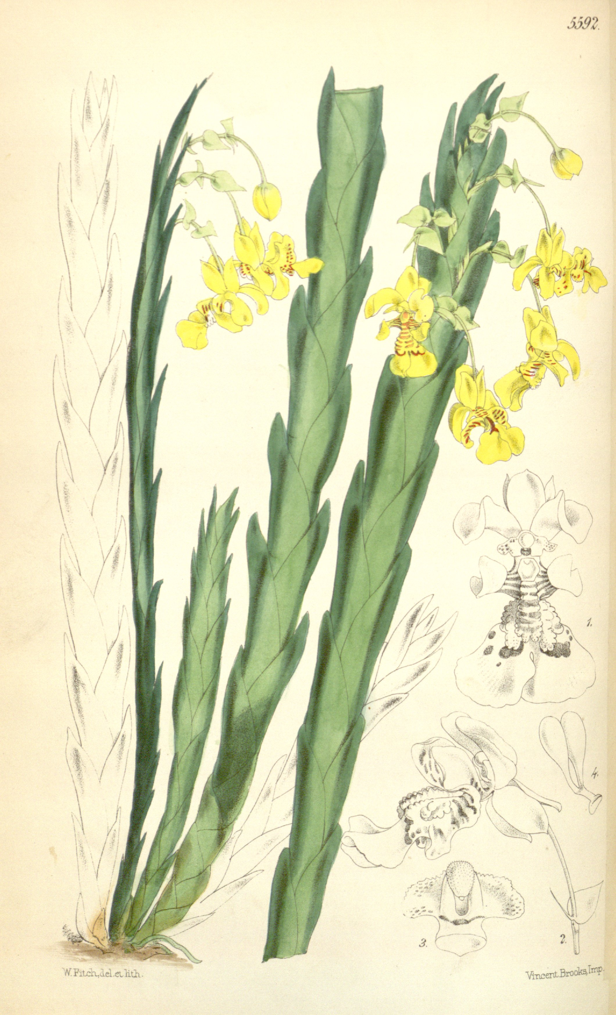 Illustration of Lockhartia oerstedii (as syn. Fernandezia robusta)